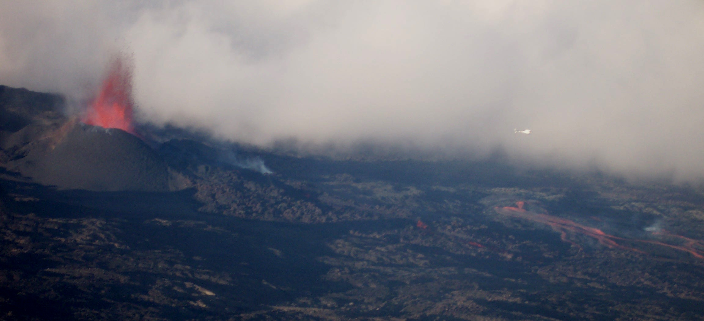 eruption on the southeast flank of Piton de la Fournaise (May 2004)